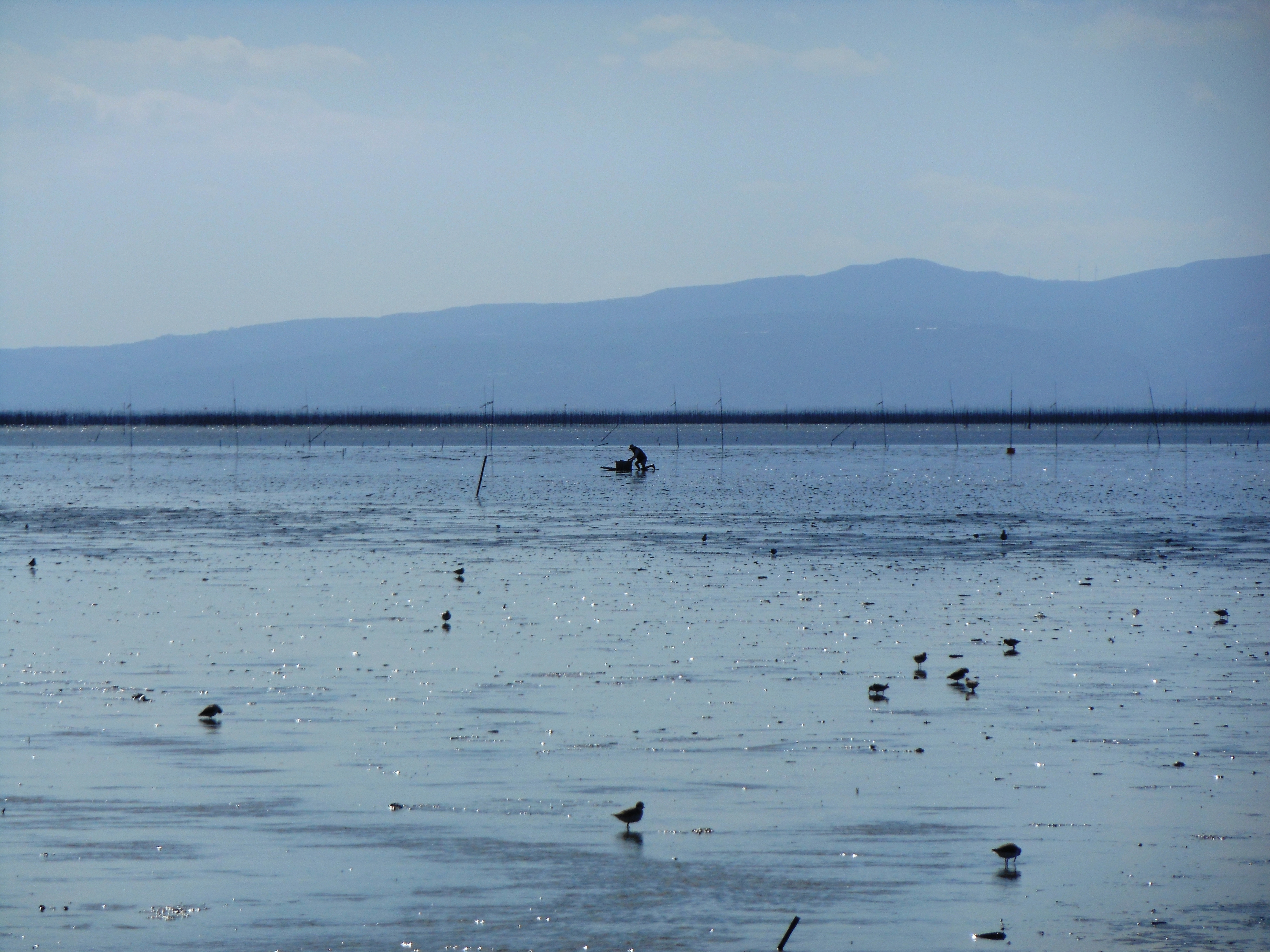 Distant view of fisherman rowing board("Oshiita"or"Gata-ski") on mudflat of Ariake Sea. Offshore of Higashiyoka, Saga city, Japan.